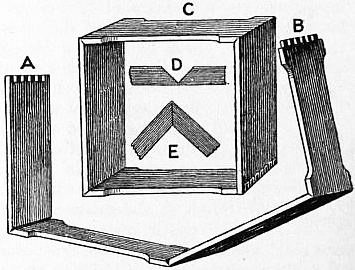 “1-℔ section” wooden box for holding Comb-honey. (Redrawn from the A B C of Bee Culture, published by the A. I. Root Co., Medina, Ohio, U.S.A.) Illustration from 1911 Encyclopædia Britannica, article Bee